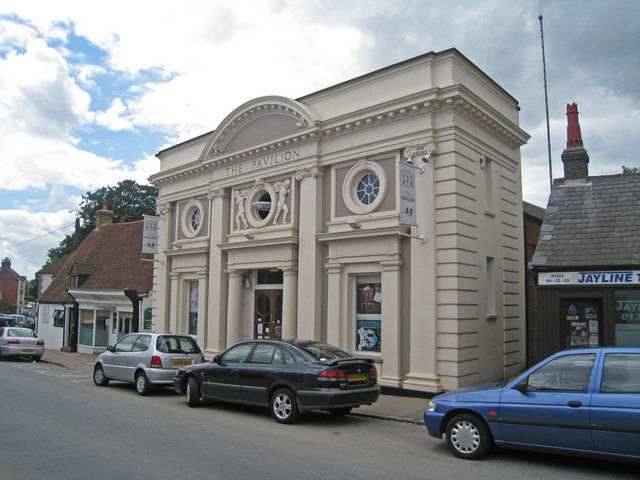 Hailsham Pavilion, George Street, Hailsham, East Sussex Former cinema. Grade II Listed .